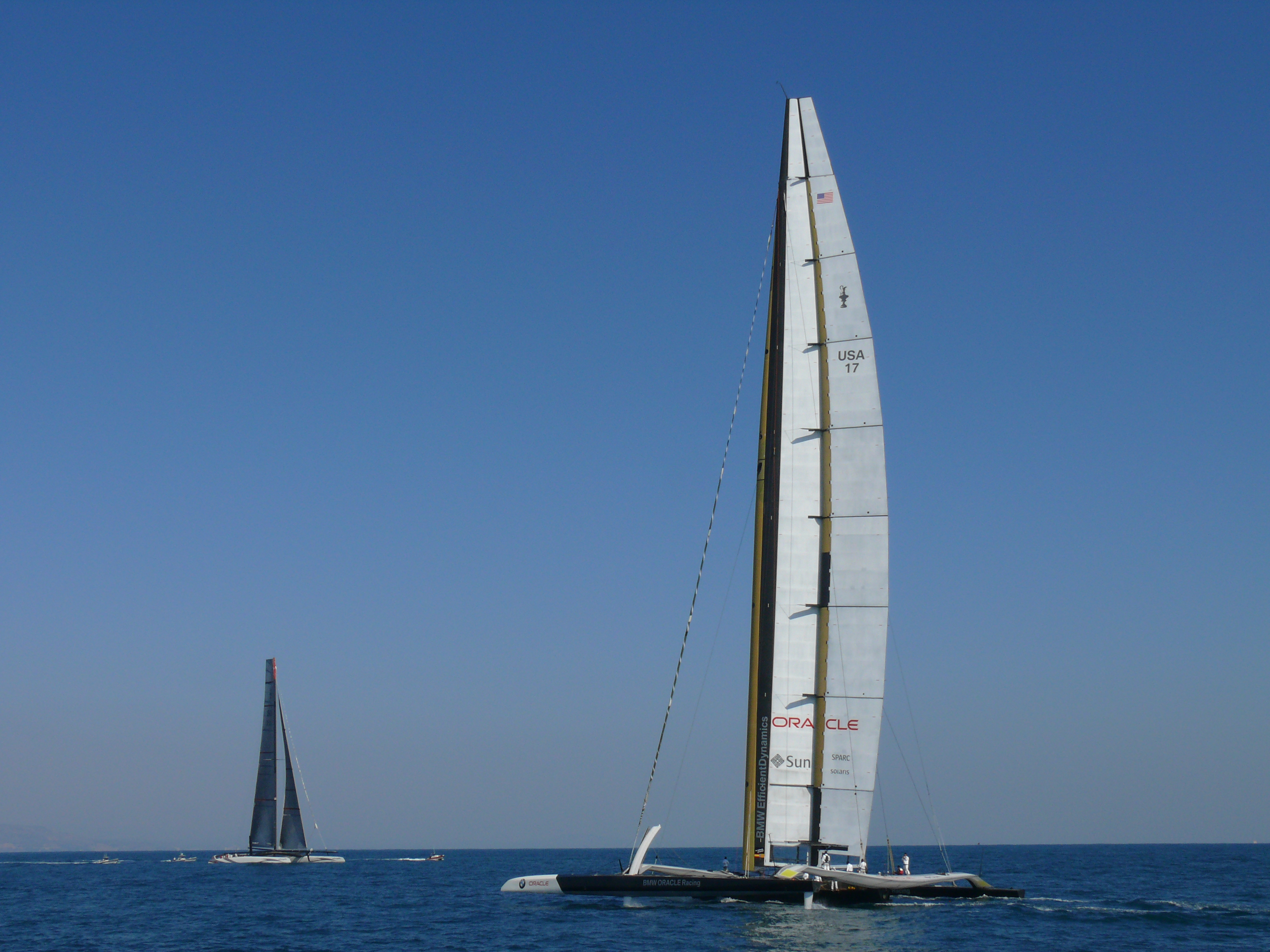 33rd America's Cup Valencia, Spain